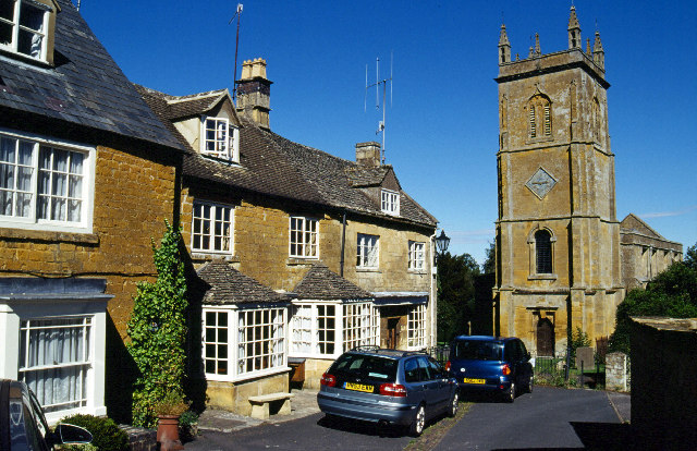 The Square, Blockley, Gloucestershire, looking northeast to the tower of St Giles' parish church